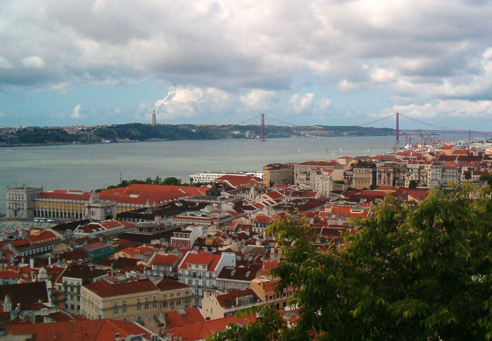 Panoramic view of Lisbon